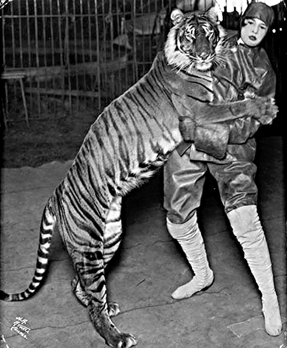 Very probably Bali tiger (Panthera tigris balica) in Ringling Bros circuss with tamer Rose Flanders Bascom. Photo taken before 1915.